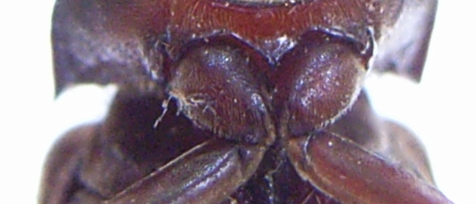 Detail of Serropalpus barbatus from Southern Germany (Kreis Tuttlingen) 700 m